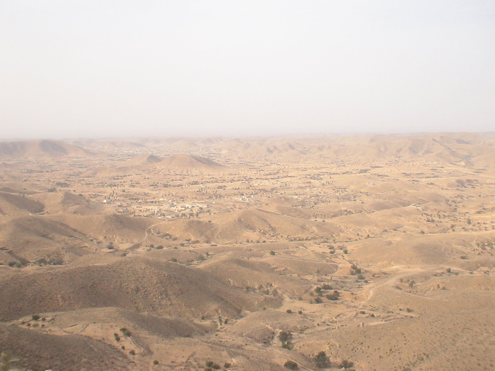 Desert in Tunisia (near to Matmata)